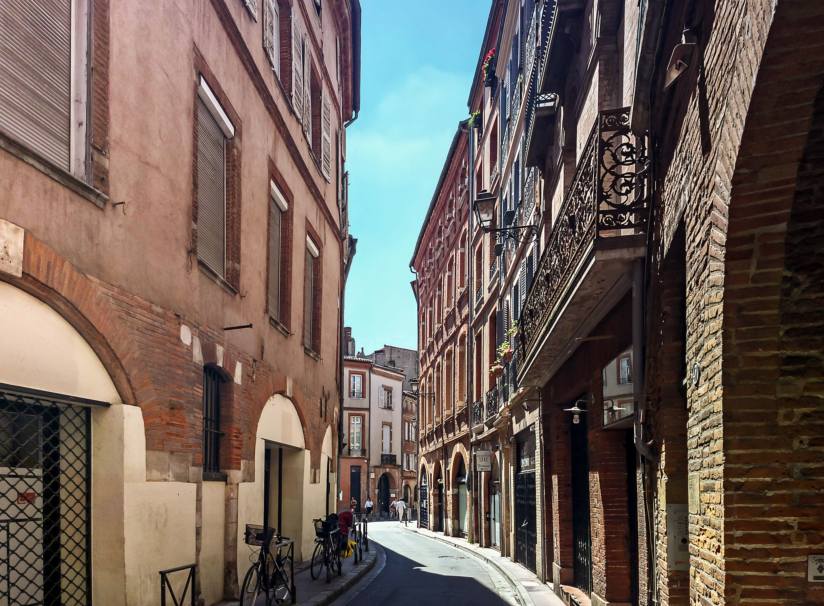 Rue des Paradoux in Toulouse. In the background the house of the historian Jules Chalande.